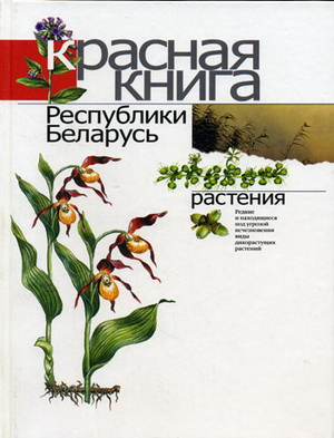 Plants' Red book of Republic of Belarus